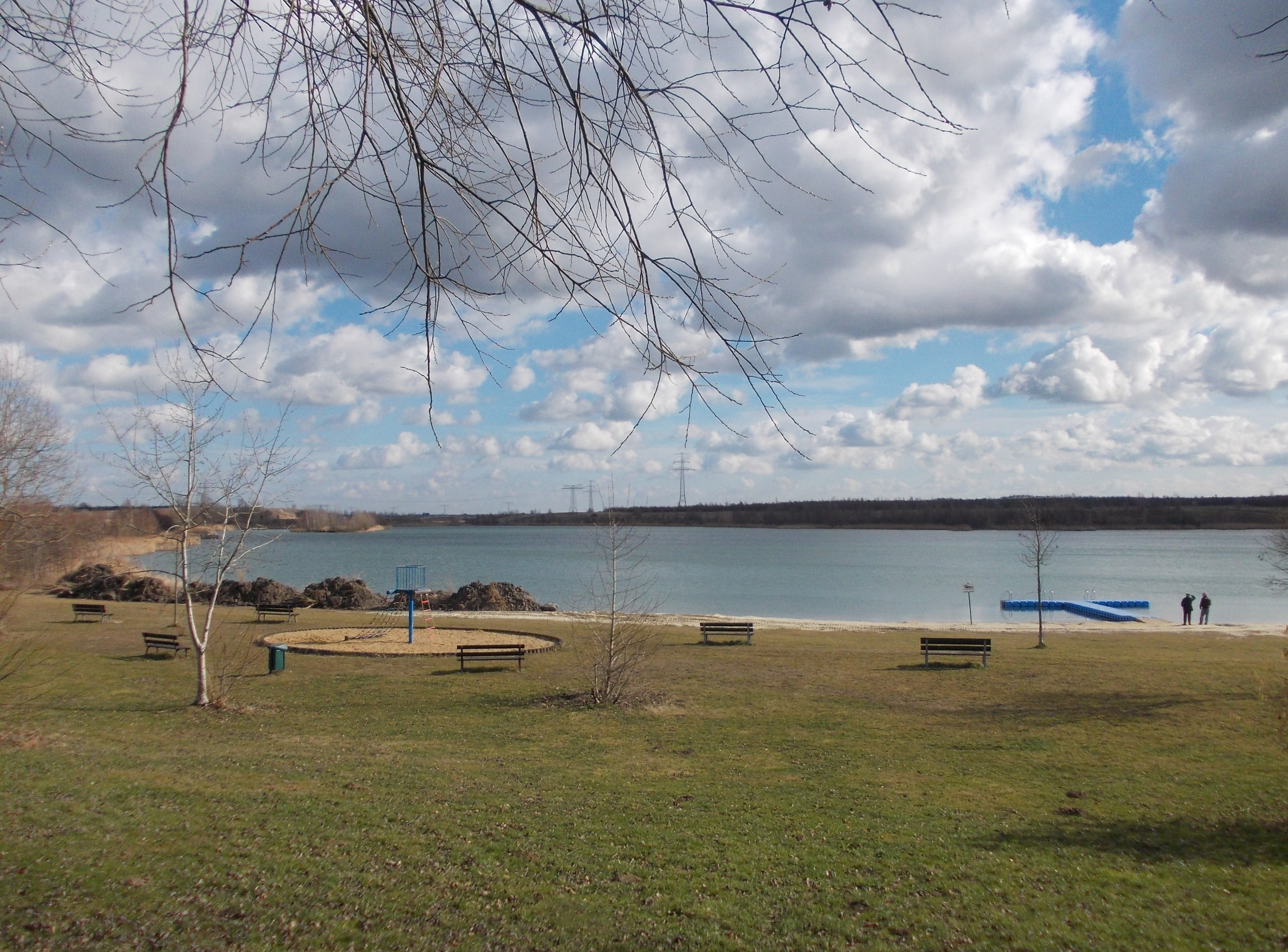 Grossstolpen Lake (Groitzsch, Leipzig district, Saxony)